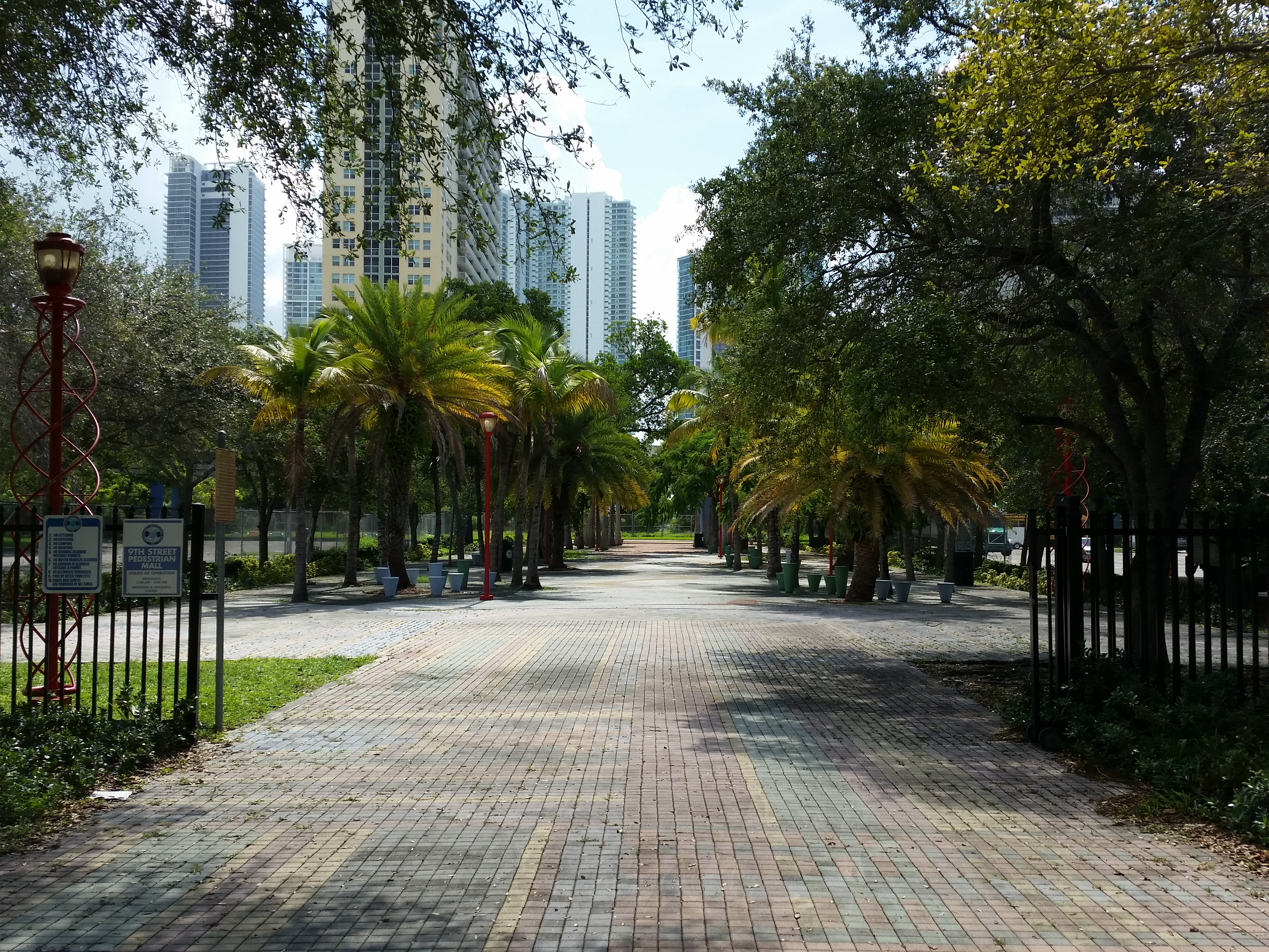 Overtown: Ninth Street Pedestrian Mall, NW 9th St, Miami, FL